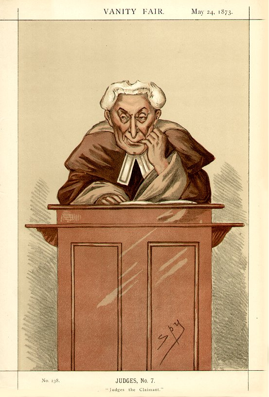 Caricature of The Hon Sir John Mellor. Caption read "Judges the Claimant".